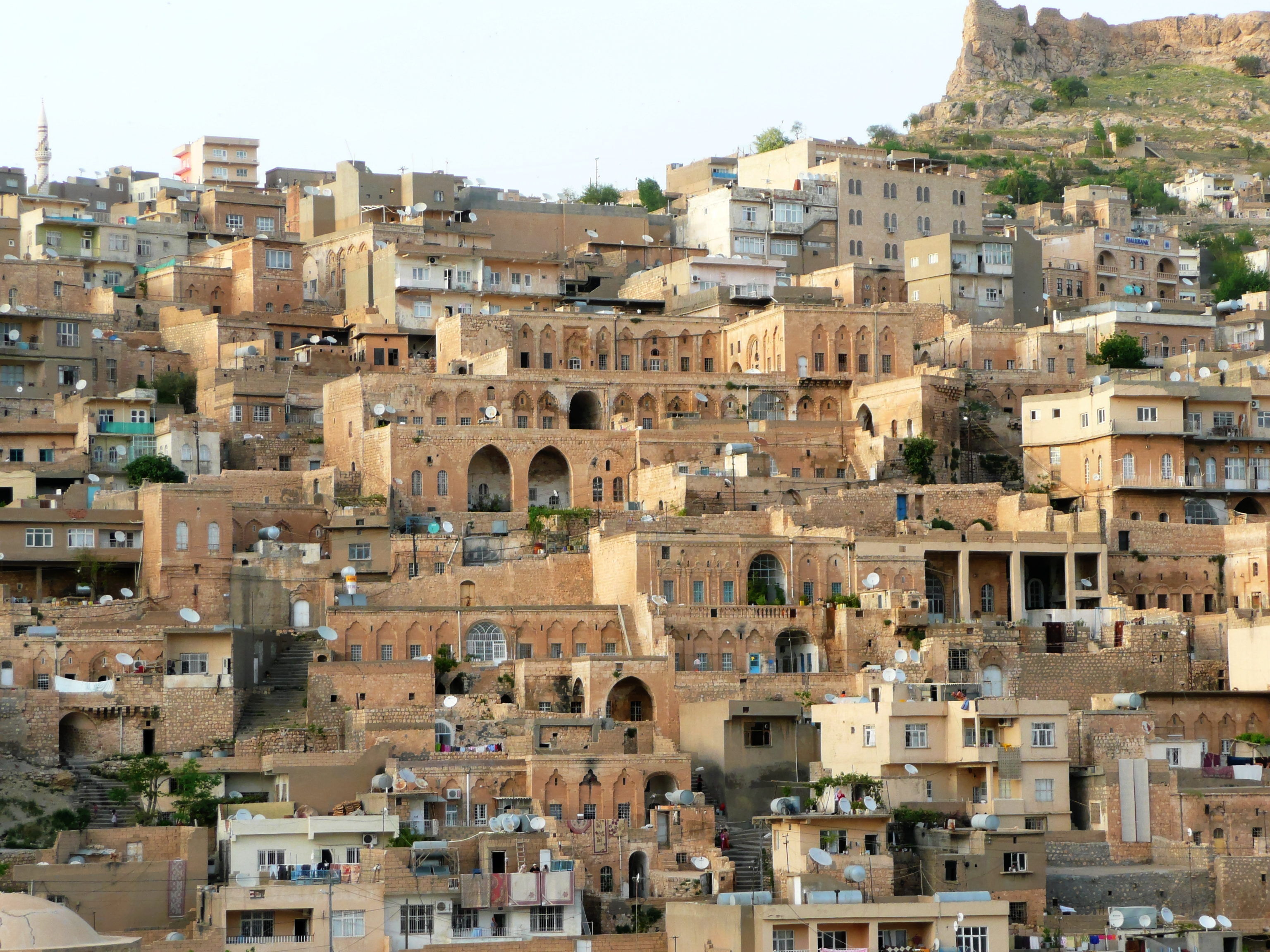 Photographs from Mardin, Turkey